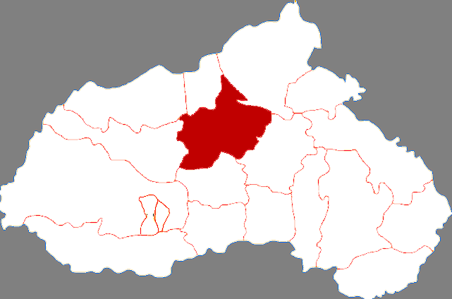 Location of Longyao county in Xingtai City, China